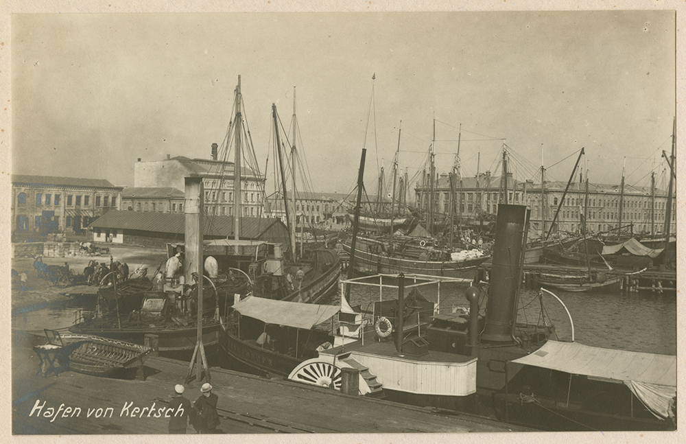 Title: Hafen von Kertsch Alternative Title: Kerch harbor Creator: Unknown Date: Spring 1918 Part Of: Place: Kerch, Crimea Description: A photograph of the Kerch harbor. Physical Description: 1 photographic print: gelatin silver; 9 x 14 cm. on 34 x 44 cm. mount File: ag1982_0048x_39a_sm_opt.jpg Rights: Please cite DeGolyer Library, Southern Methodist University when using this file. A high-resolution version of this file may be obtained for a fee. For details see the web page. For other information, . Both the full portfolio and the 263 individual photographs, scanned at a higher resolution, are available. View the full portfolio: View the individual photographs: For more information and to view the image in high resolution, View the